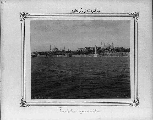 Light house at Ahırkapı between 1880 and 1893